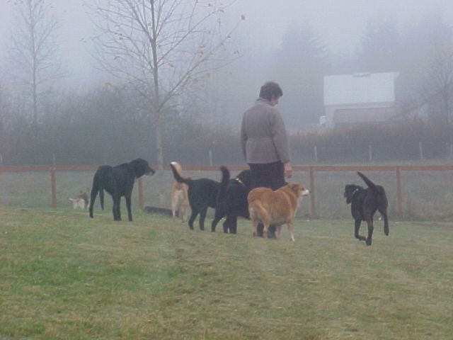 Some of the senior dogs at OldDog Haven's home base enjoy a walk in the field.